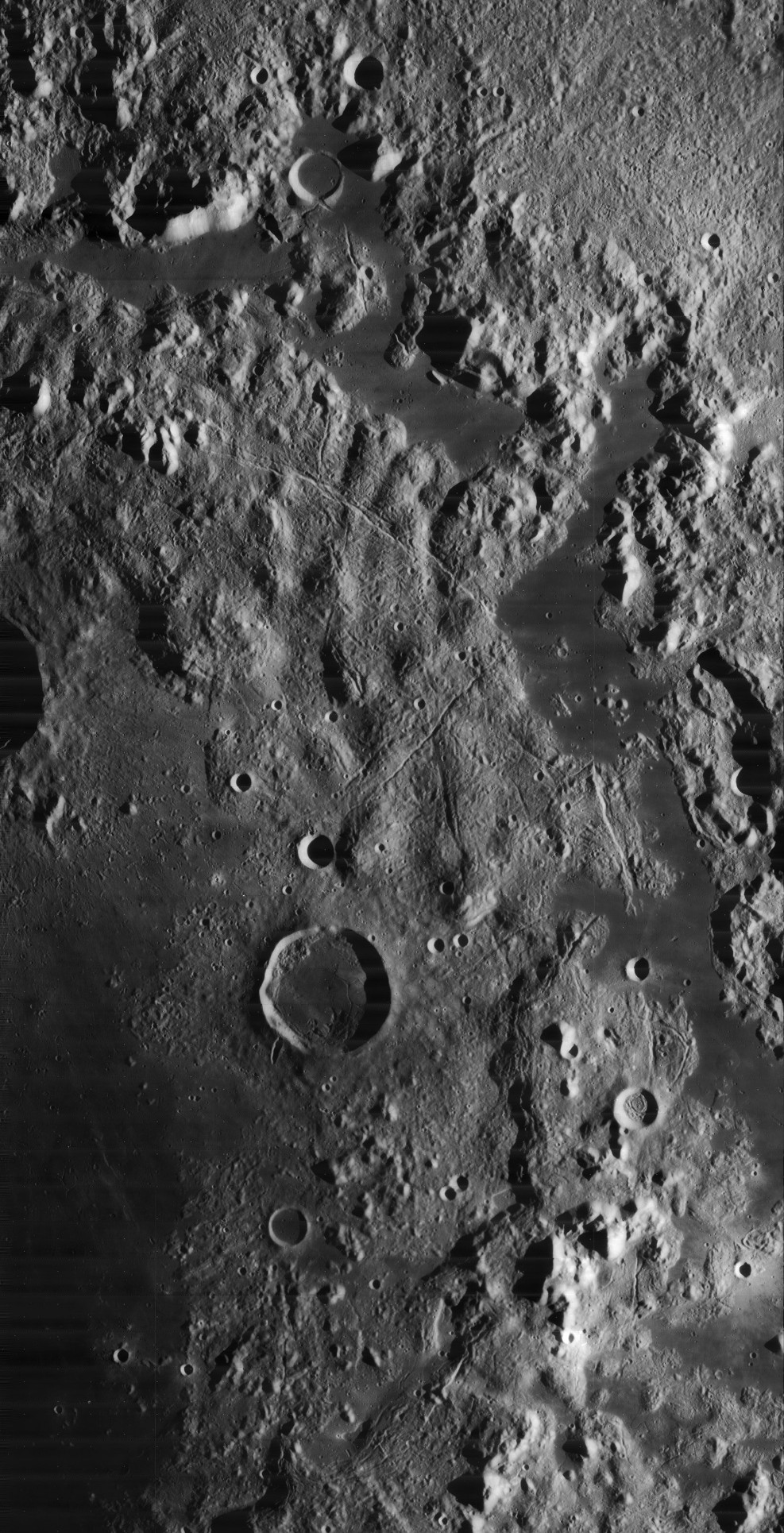 The dark patches in the upper left to the lower right are portions of Lacus Veris within the Orientale Basin on the moon. The large crater below center is Kopff.